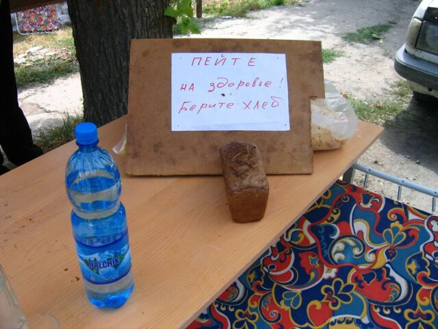 August 2008. Tskhinval after Georgian artillery bombardment